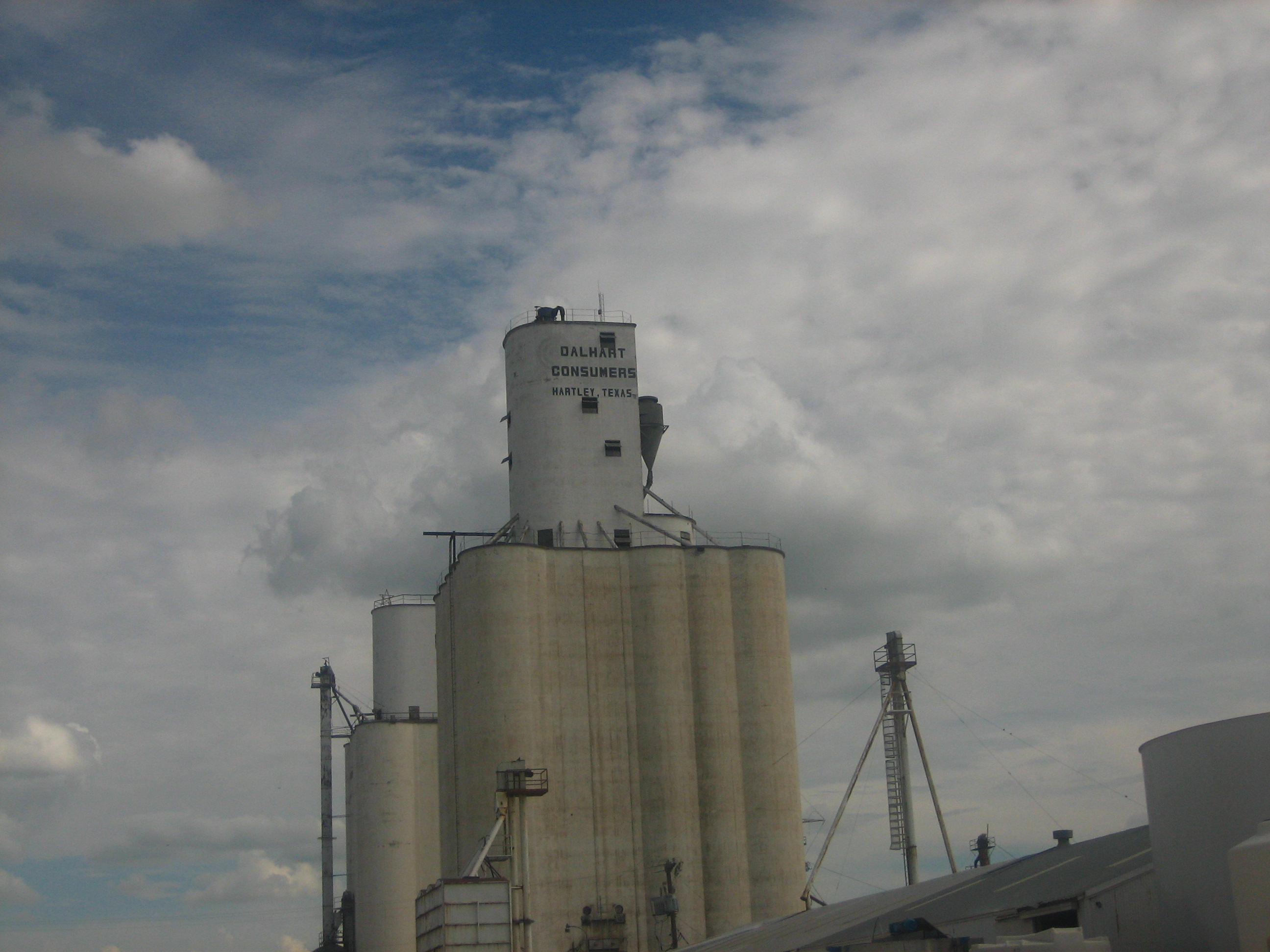 This grain elevator is located in Hartley, Texas! Not Dalhart. It is written on top of the elevator!!